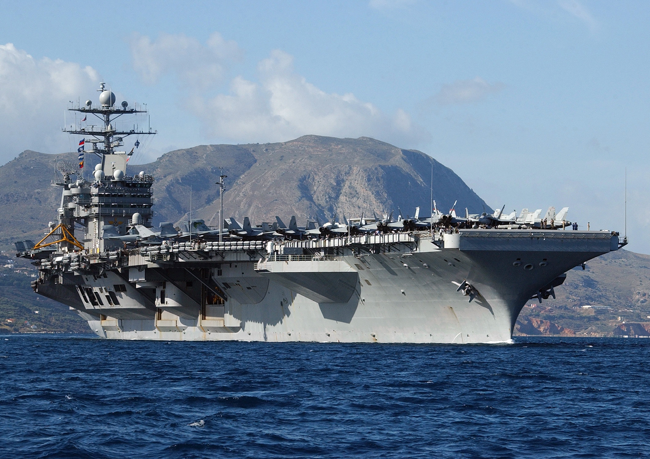 041108-N-0780F-066 Crete, Greece (Nov. 8, 2004) - The Nimitz-class aircraft carrier USS Harry S. Truman (CVN 75) sails out of Souda harbor in Crete, Greece, following a four-day port visit to Greece's largest island. Truman and embarked Carrier Air Wing Three (CVW-3) are currently on a regularly scheduled deployment in support of the Global War on Terrorism. U.S. Navy photo by Paul Farley (RELEASED)